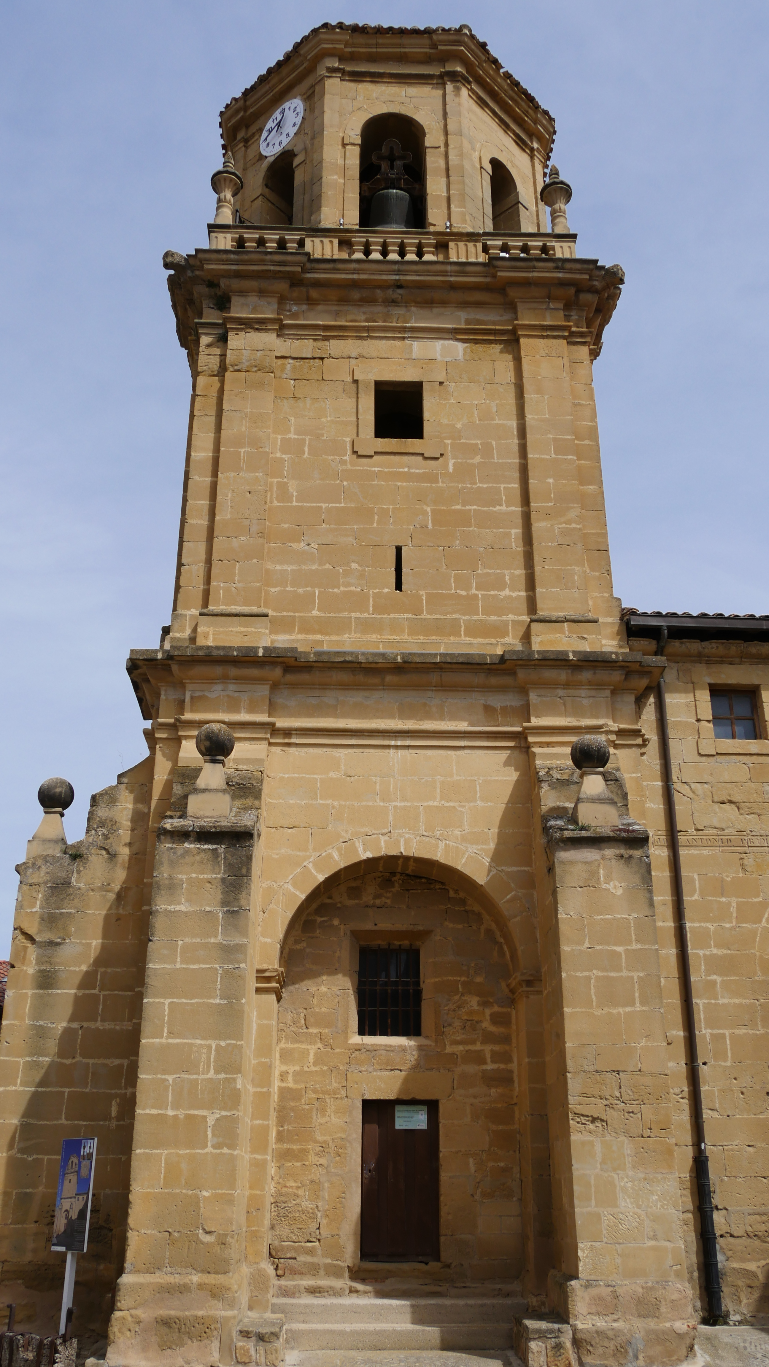 Church of Sajazarra, Bien de interés cultural (BIC) in La Rioja, Spain.